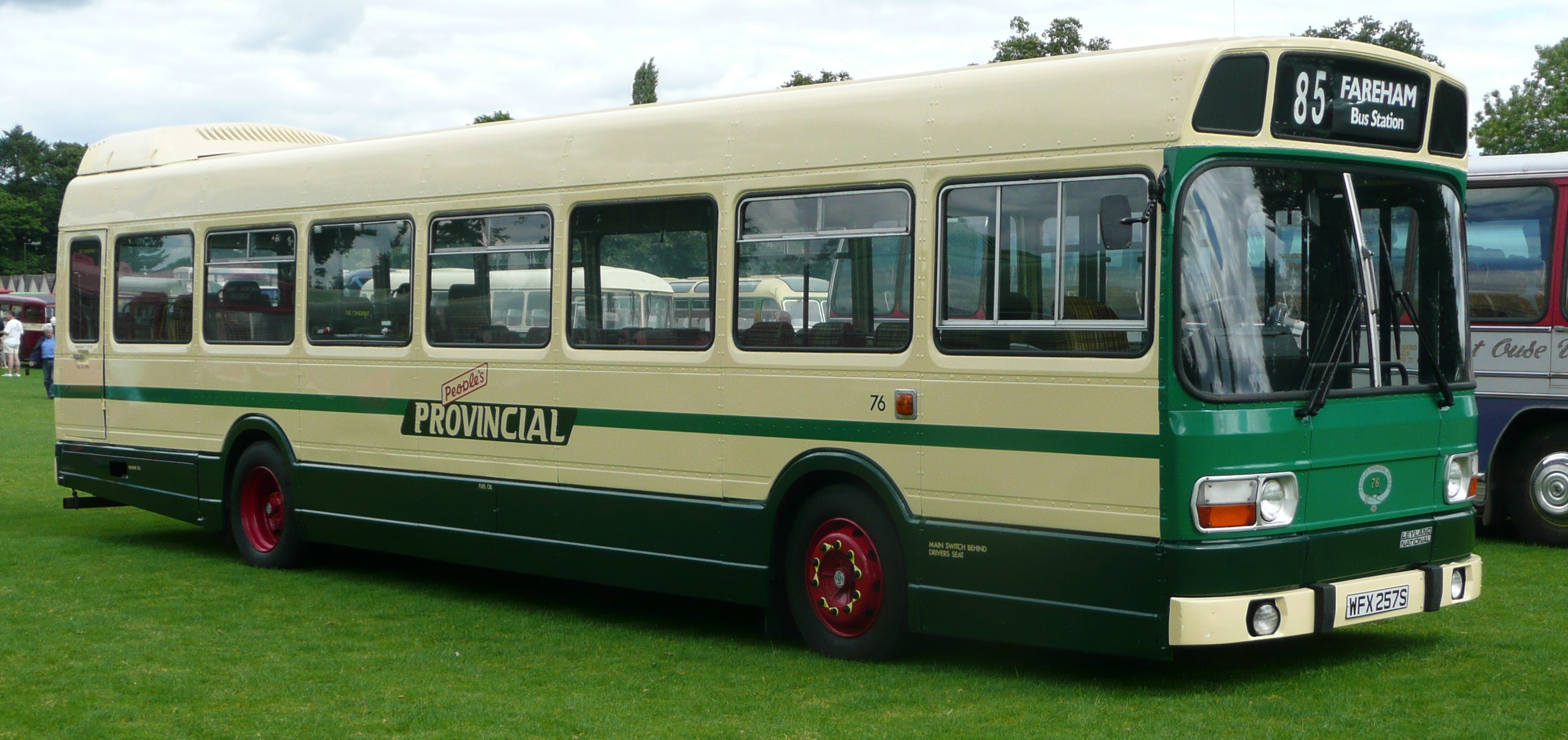 A preserved People's Provincial Leyland National at the 2008 Alton Bus Rally. The current successor of People's Provincial is First Hampshire & Dorset.